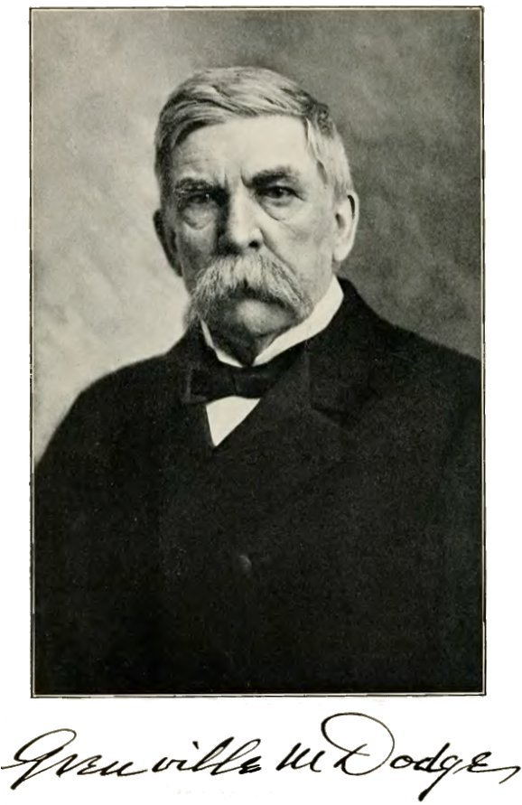 Illustration in History of Iowa From the Earliest Times to the Beginning of the Twentieth Century